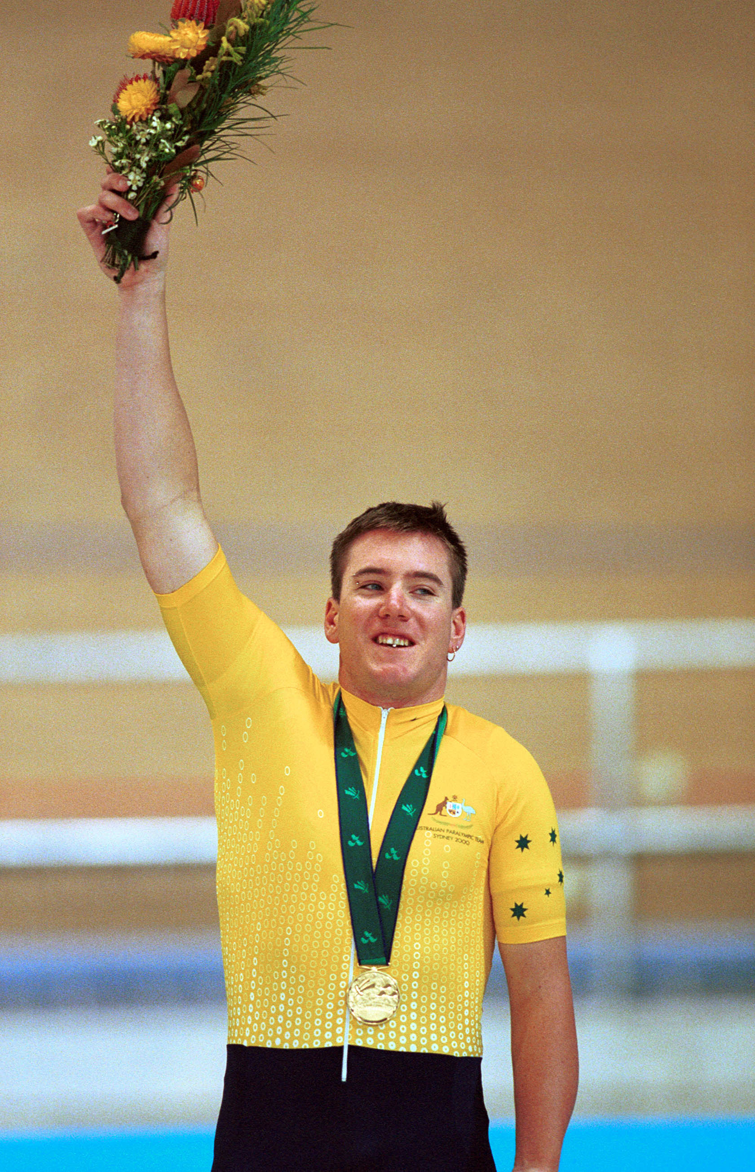 Australian track cyclist Matthew Gray on the podium with his gold medal won at the LC1 1km Time Trial, 2000 Sydney Paralympic Games